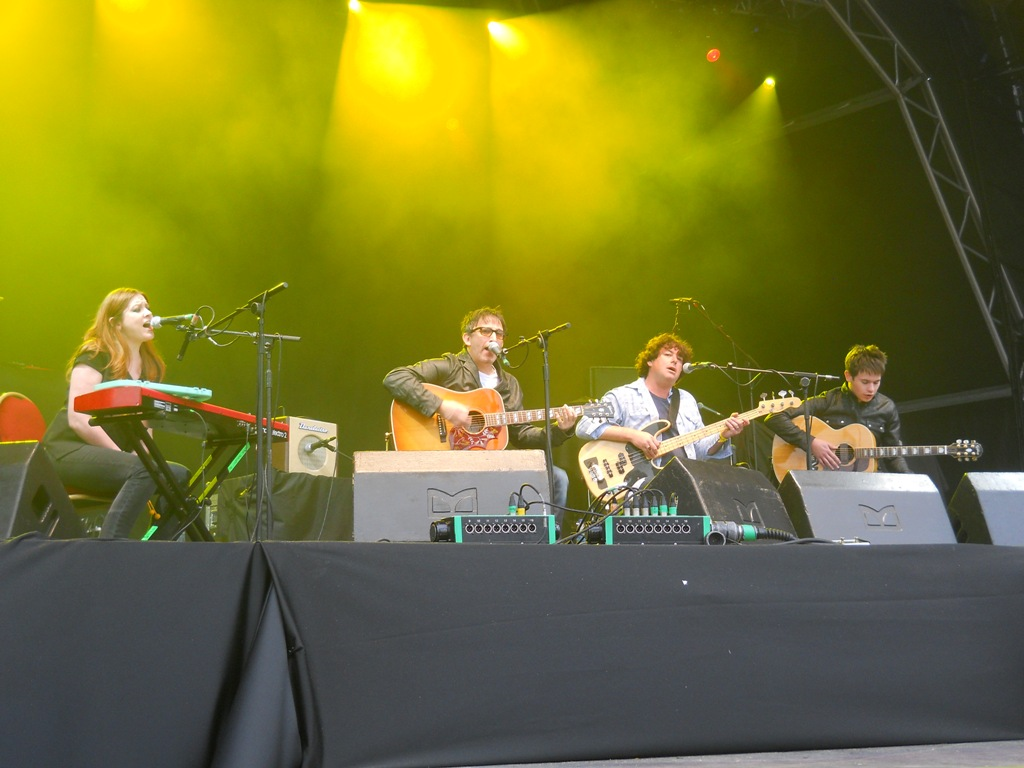 The Lightning Seeds performing in 2011.